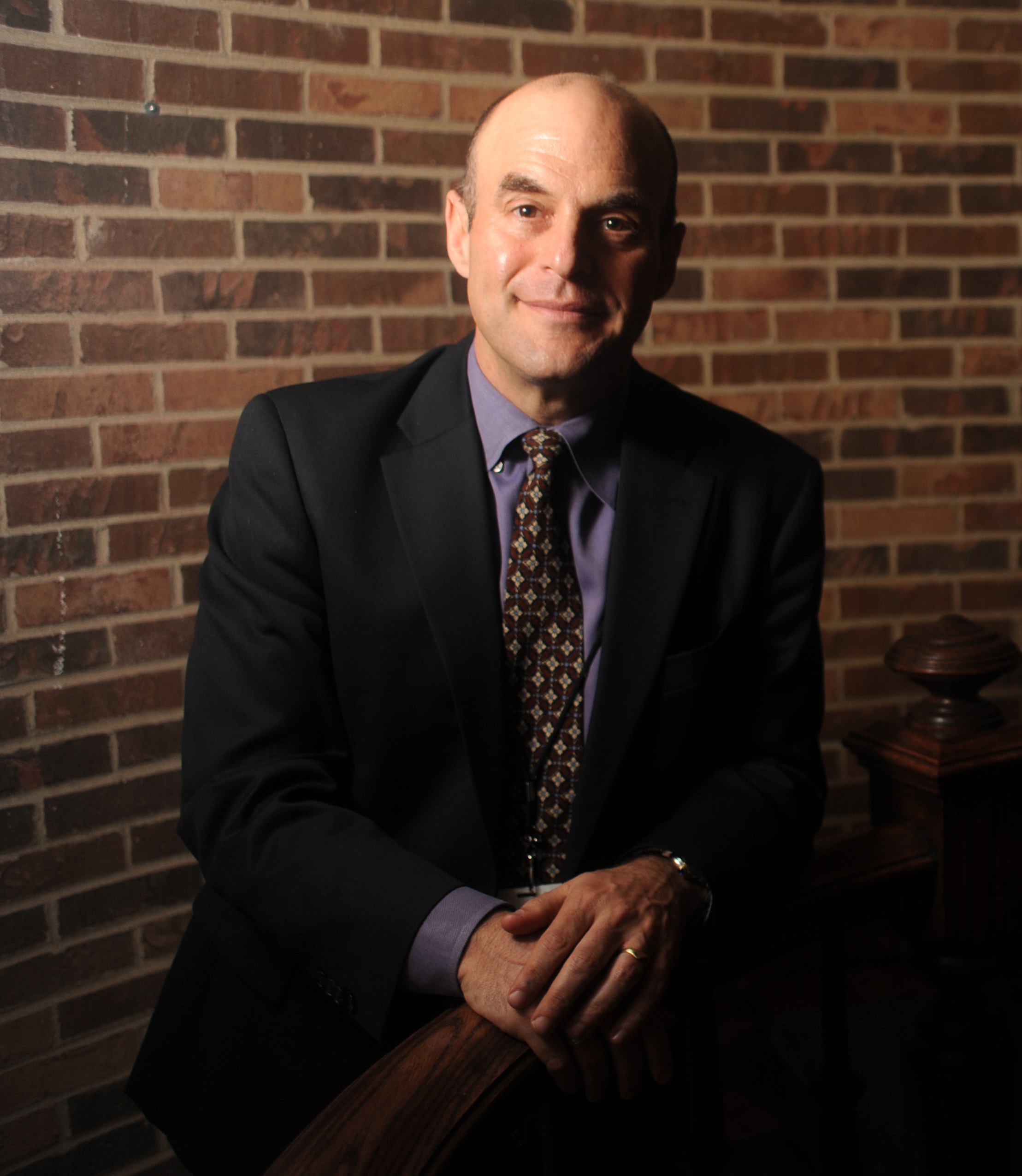 Peter Sagal, taken in Chicago